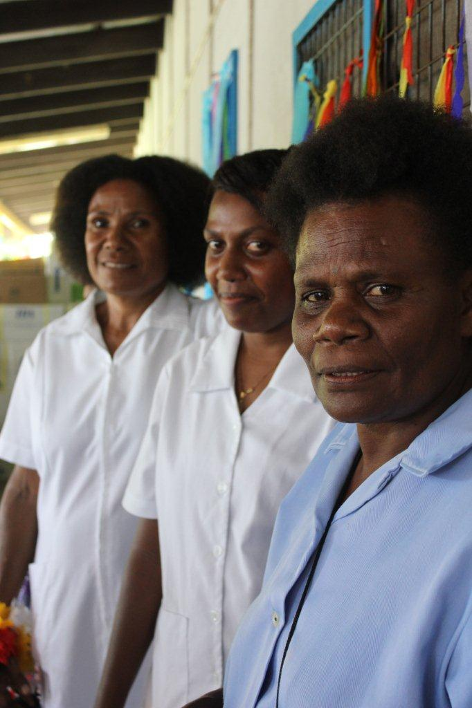 Nurses at Butuwin Urban Clinic, Kokopo, East New Britain, PNG, during a visit by the Governor-General of the Commonwealth of Australia, Ms Quentin Bryce AC CVO. Photo: AusAID For a high resolution copy of this photo please